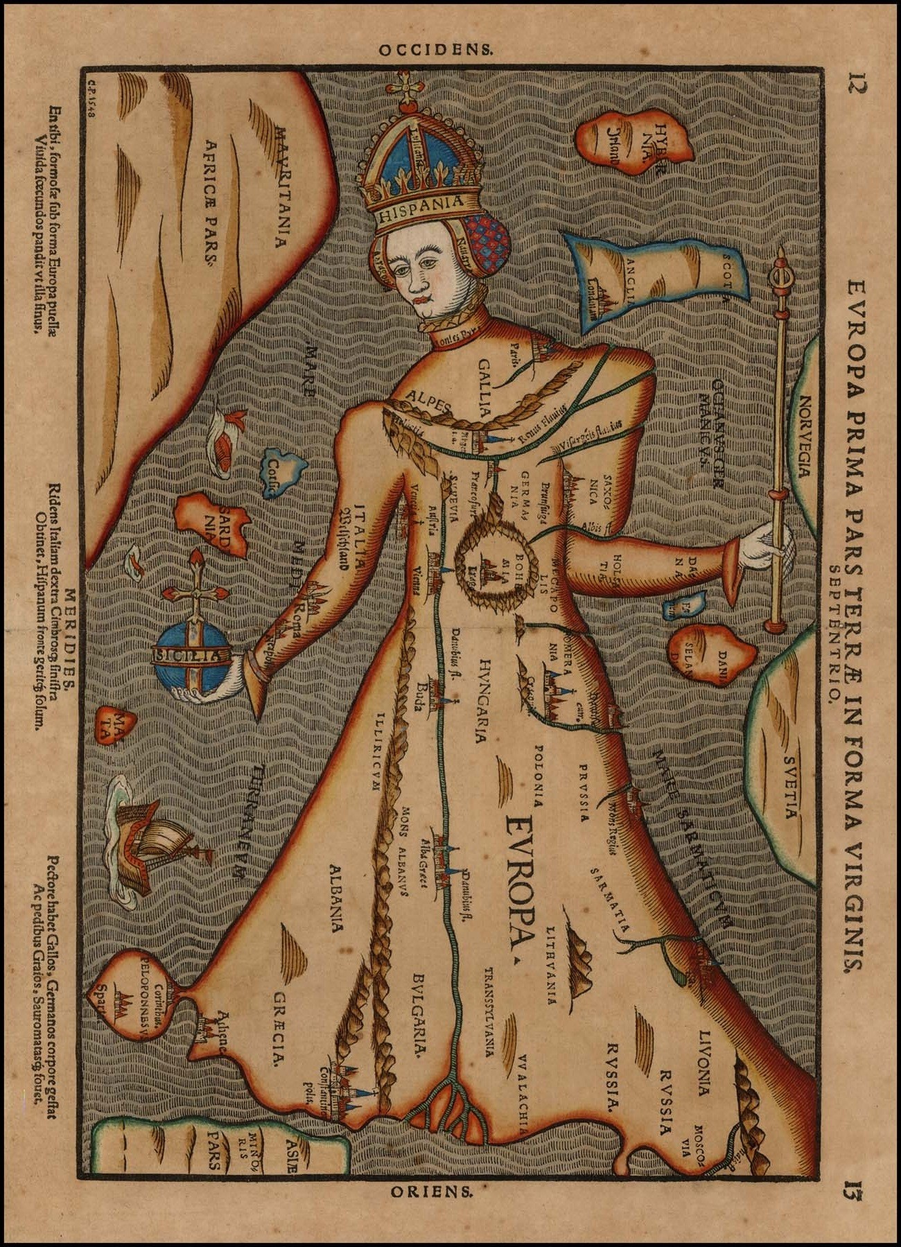 Historical Map (Heinrich Bünting ?): Europa Prima Pars, Terrae in Forma Virginis, signed C.P. 1548 (left side at top), standing version